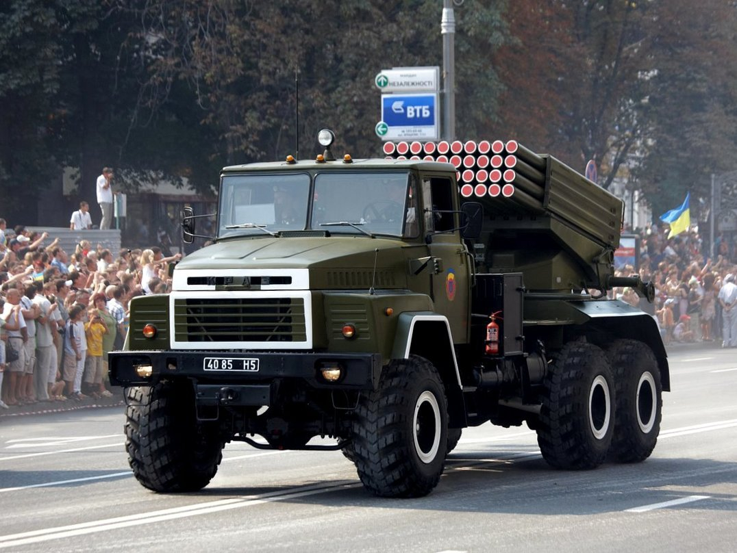 Ukrainian 9K51 "Grad" launchers during the Independence Day parade in Kiev, Ukraine in 2008.